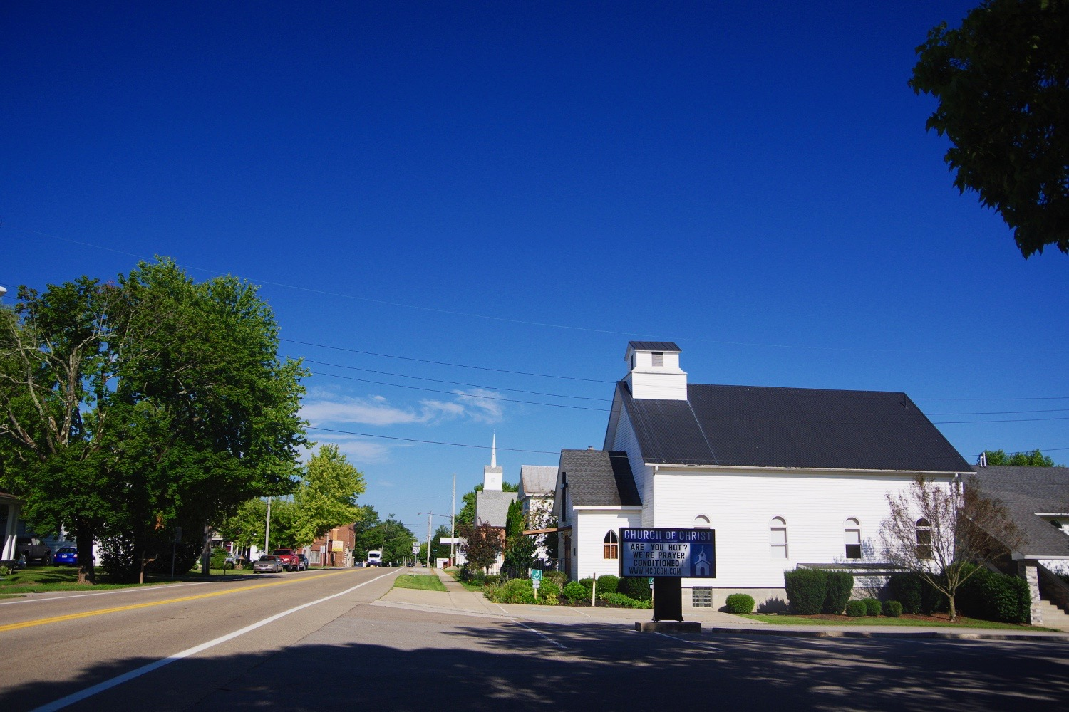 View along Main Street (Ohio State Route 28) in Martinsville, Ohio, United States. The Martinsville Church of Christ is on the right.